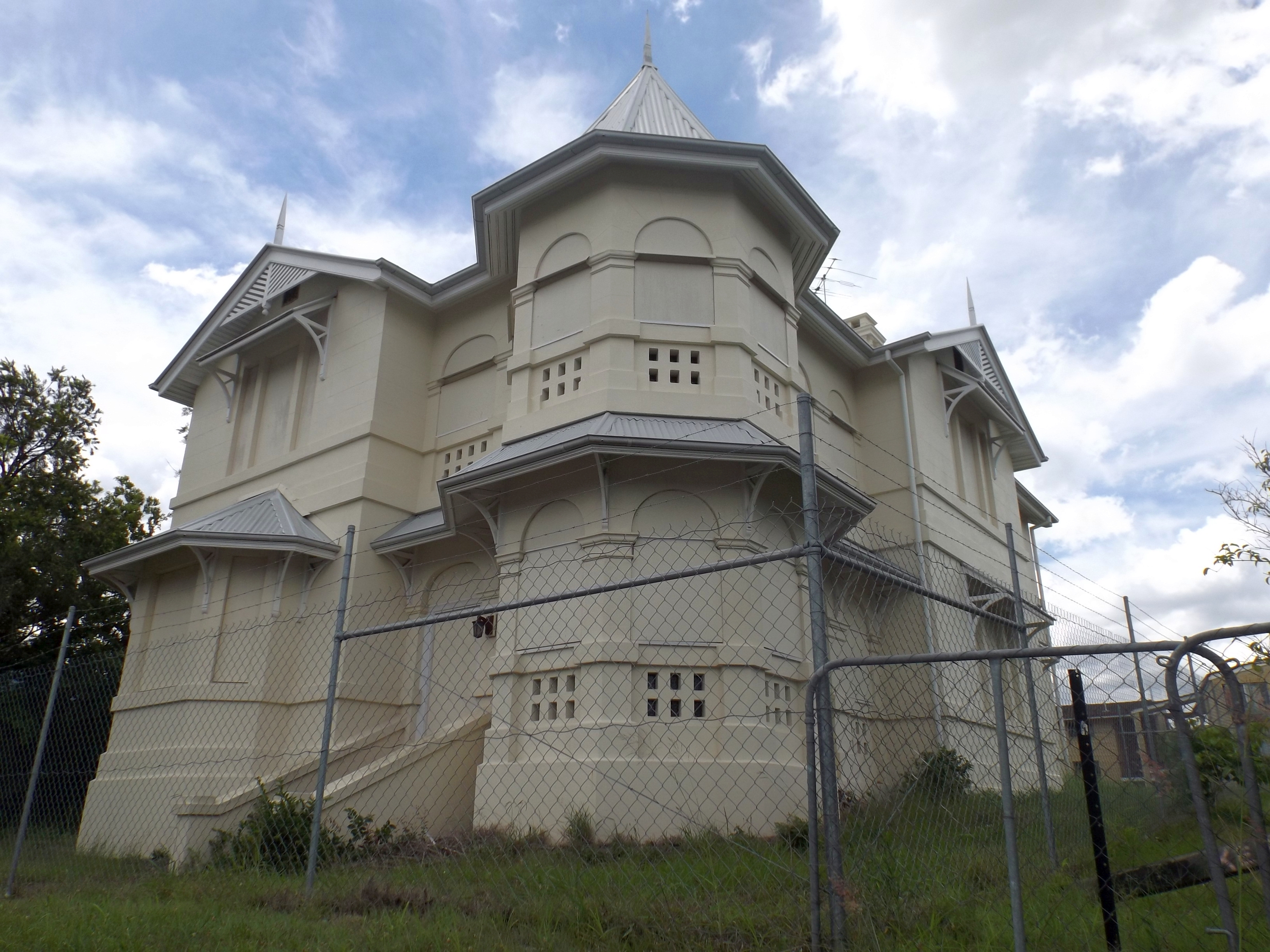 Photo of the Keating residence and surrounding fence at Indooroopilly, Brisbane, Queensland, Australia.